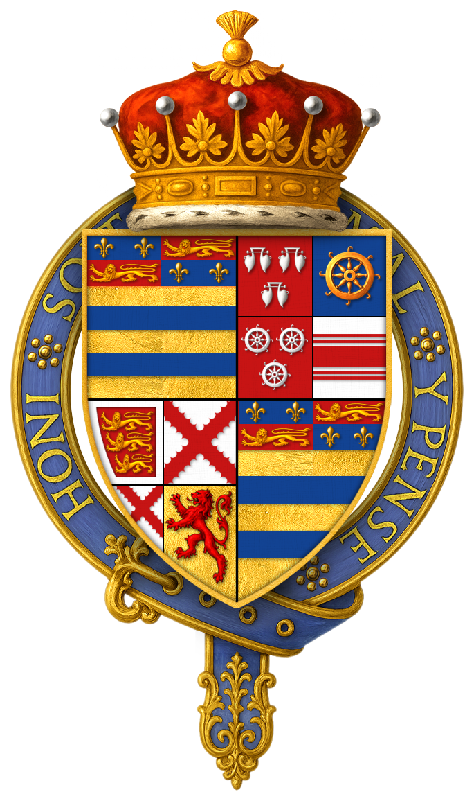 Coat of arms of Sir Thomas Manners, 1st Earl of Rutland, KG Rutland's stall plate remains installed within St. George's Chapel. The arms are: quarterly: 1 and 4, or, two bars azure, a chief quarterly of the last and gules, on the 1st and 4th, two fleurs-de-lis or, on the 2nd and 3rd, a lion passant gaurdant or (Manners); 2, a grand quarter consisting of 1, gules, three water bougets argent (Ros) 2, azure, a Catherine wheel or (Belvoir) 3, gules, three Catherine wheels argent (Espec) 4, argent, a fess between two bars gemels gules (Badlesmere) 3, a grand quarter consisting of 1, gules, three lions pasant guardant or, within a bordure argent (Holland, Earls of Kent) 2 and 3, argent, a saltire engrailed gules (Tiptoft) 4, or, a lion rampant gules (Edward Charleton, 5th Baron Charleton of Powys (1370-1421))